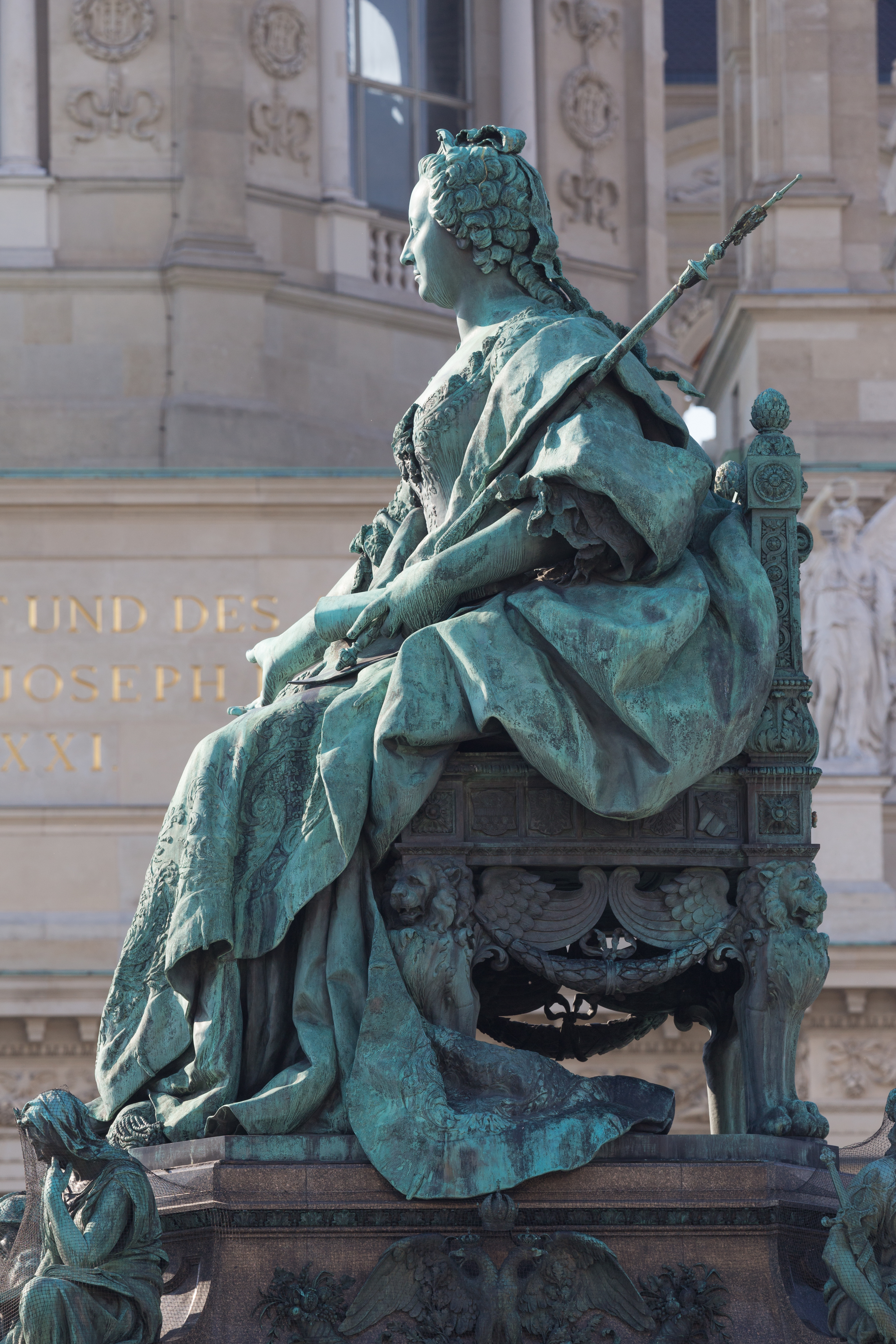 Maria-Theresia-square, Maria-Theresia monument, artist: Kaspar von Zumbusch (errected 1874-1888), main figure The making of this work was supported by Wikimedia Austria. For other files made with the support of Wikimedia Austria, please see the category Supported by Wikimedia Österreich.